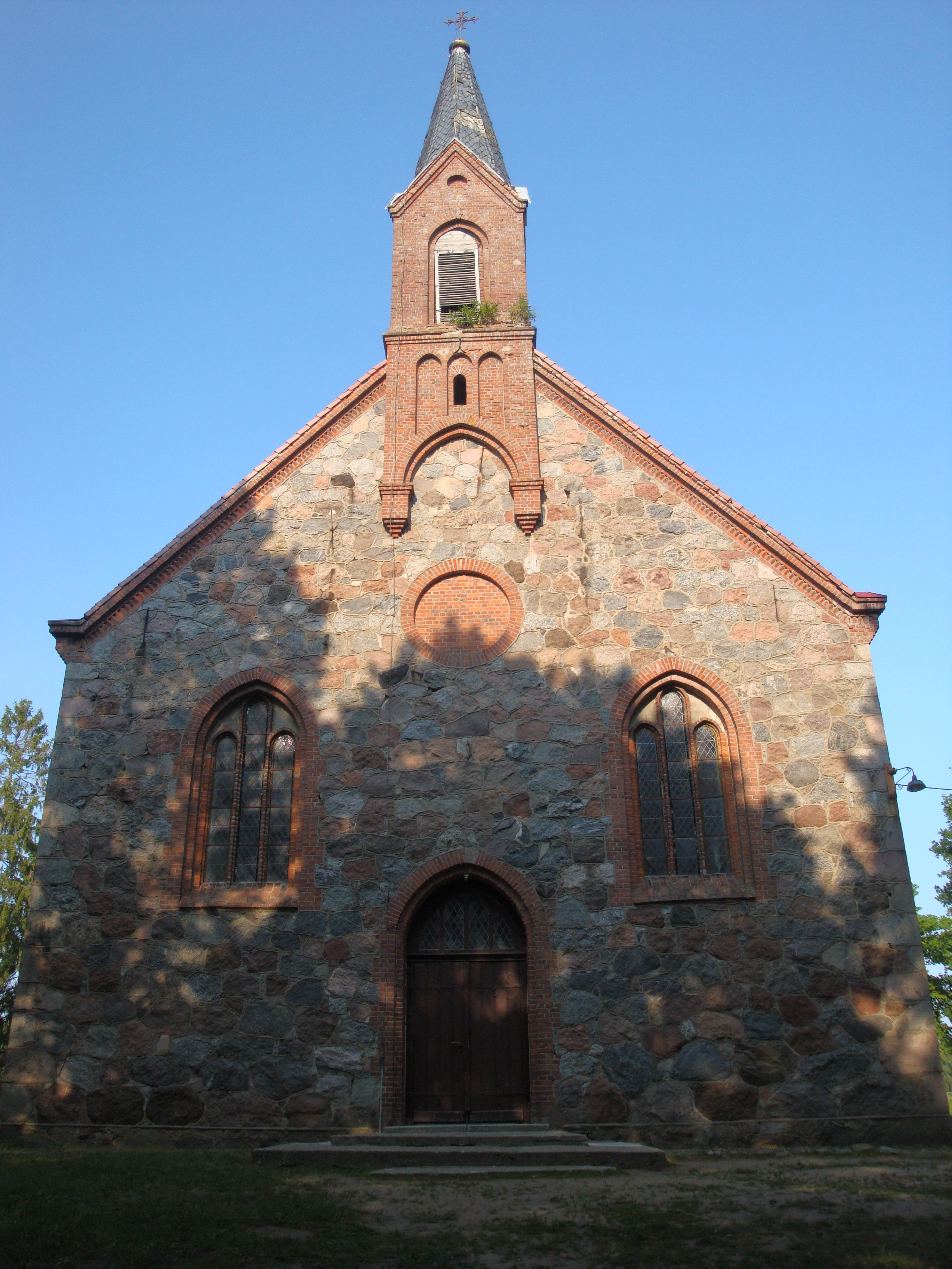 Żelkowoi-village in Pomeranian Voivodeship, PolandChurch of St. Anthony